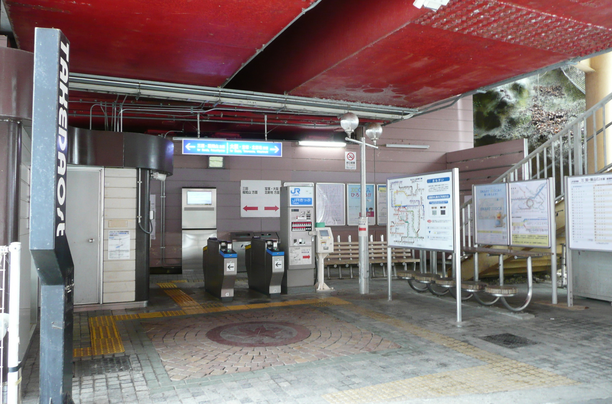 West Japan Railway,Fukuchiyama Line,Takedao Station gate. / JR福知山線（宝塚線）武田尾駅改札口